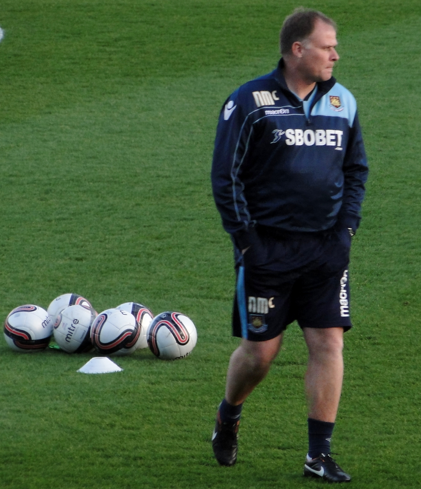 West Ham United assistant manager, Neil McDonald taking a training session before their game against Peterborough United at their London Road ground.